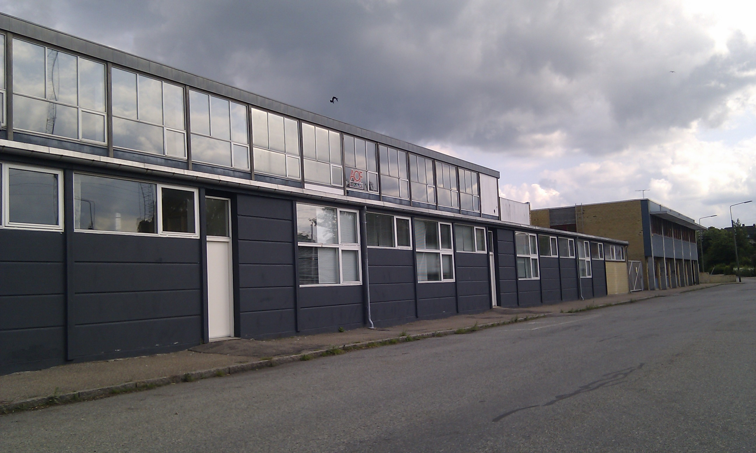 AOF centre in Holbæk, Denmark